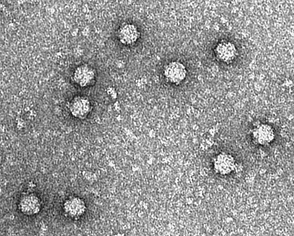 Bacteriophage Phi X 174 Electron micrograph